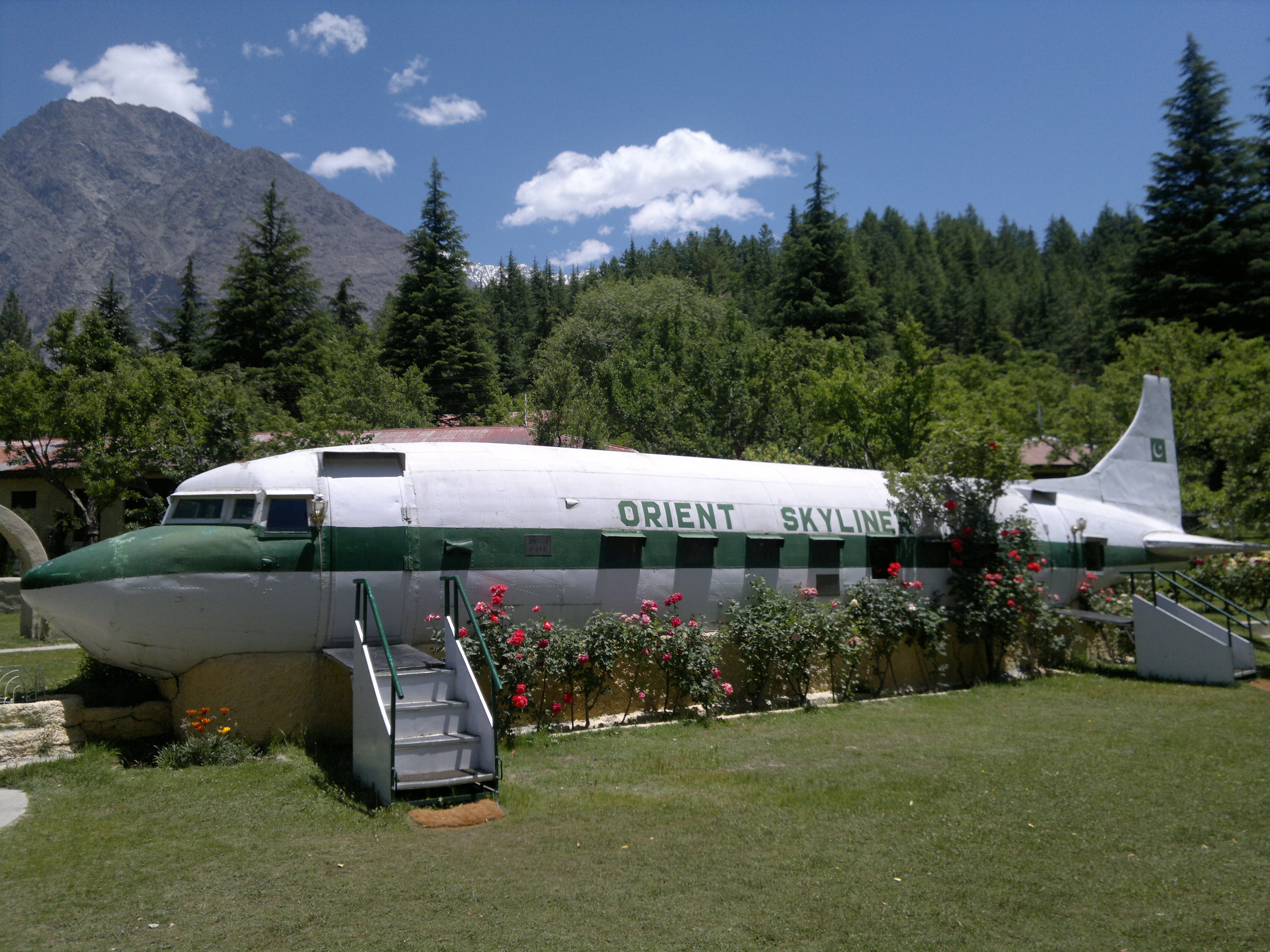 this picture was also captured by me